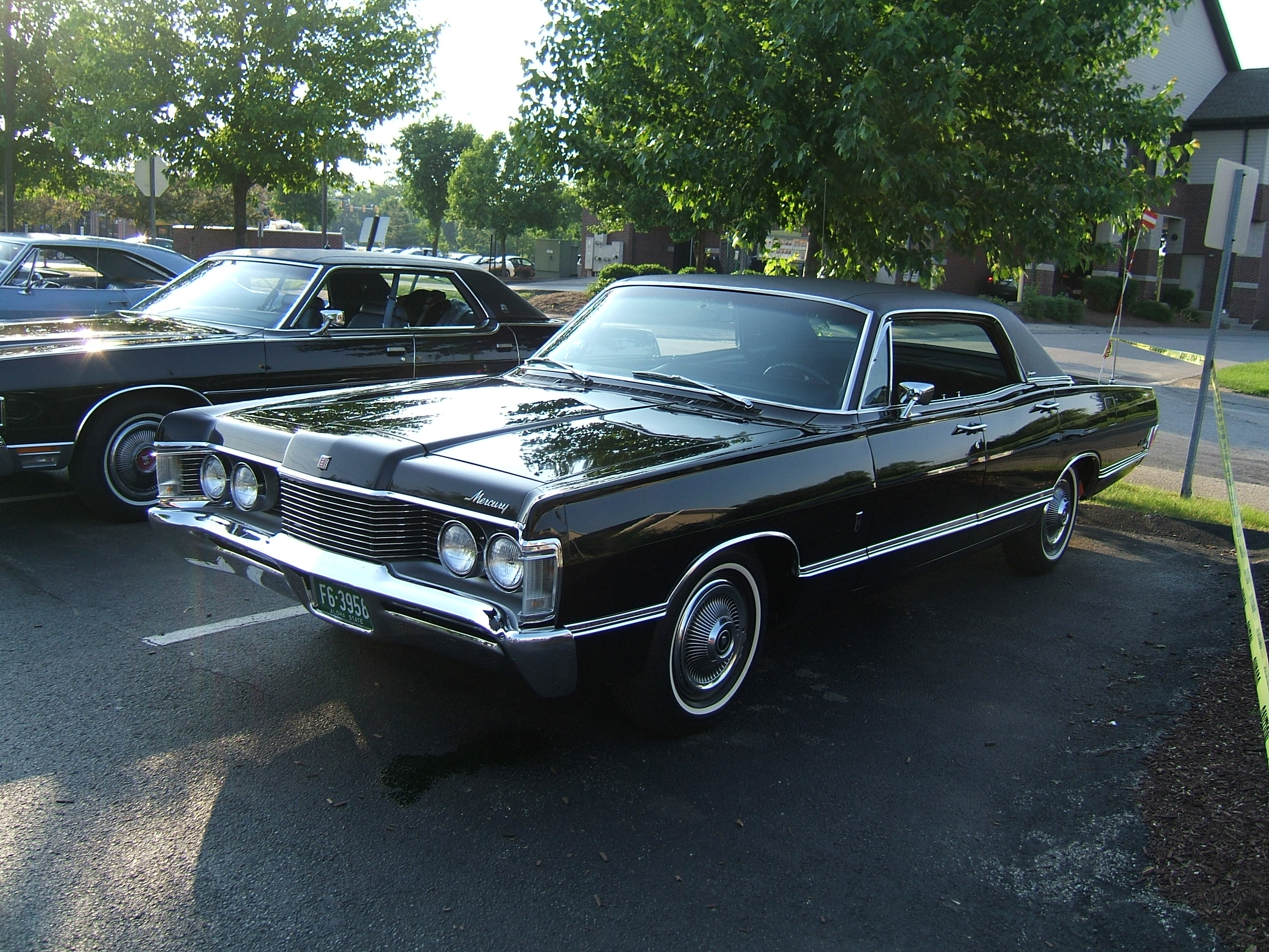 This triple-black 1968 Mercury Park Lane Brougham is owned by a collector and Hawaii Five-O fan in Mars, Pennsylvania, USA.